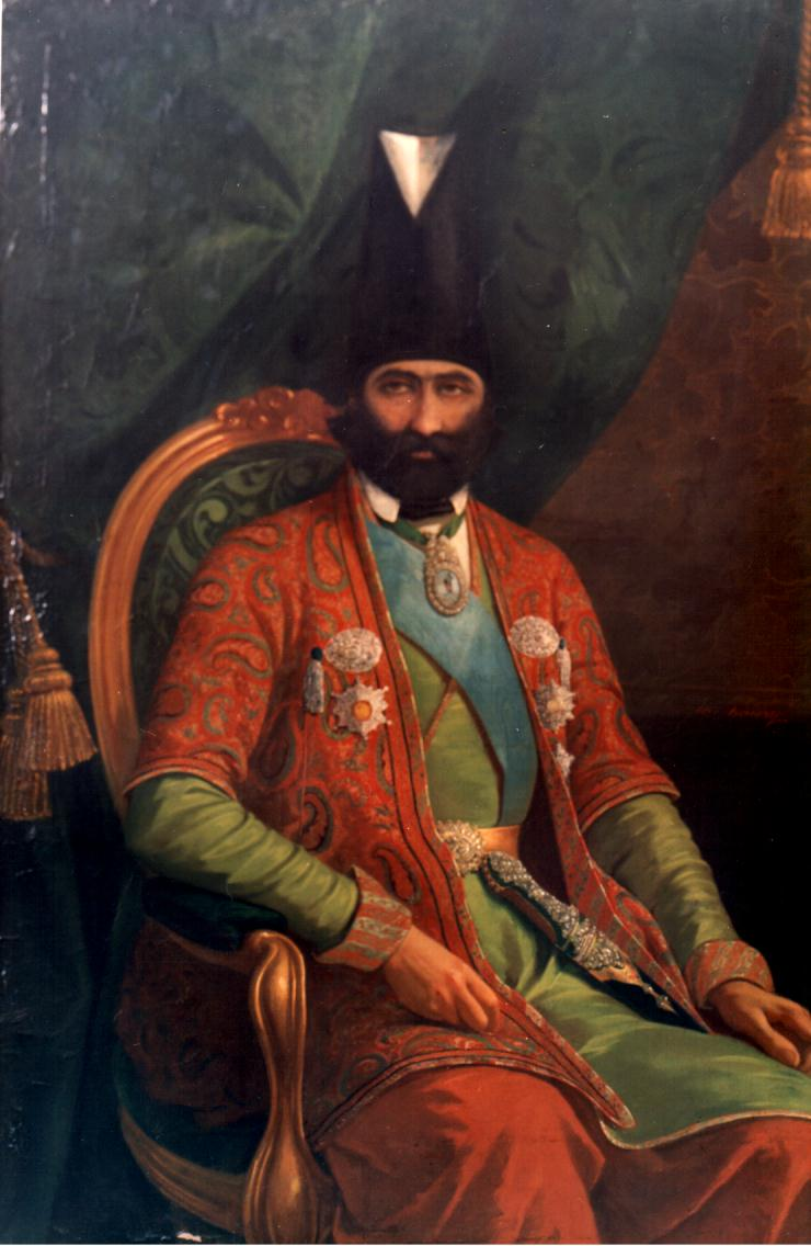 Painting of the 19th-century Iranian statesman Farrokh Khan.